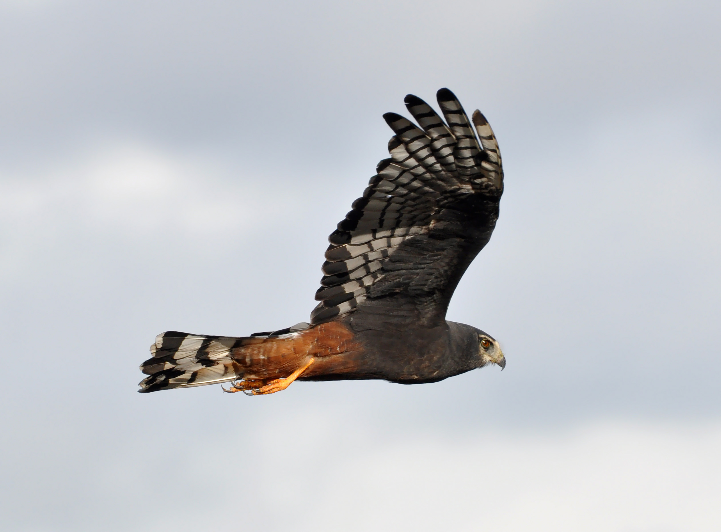 Male Long-winged harrier (Circus buffoni), dark morph. Photographed in Rio Grande do Sul, Brazil, May 2010.